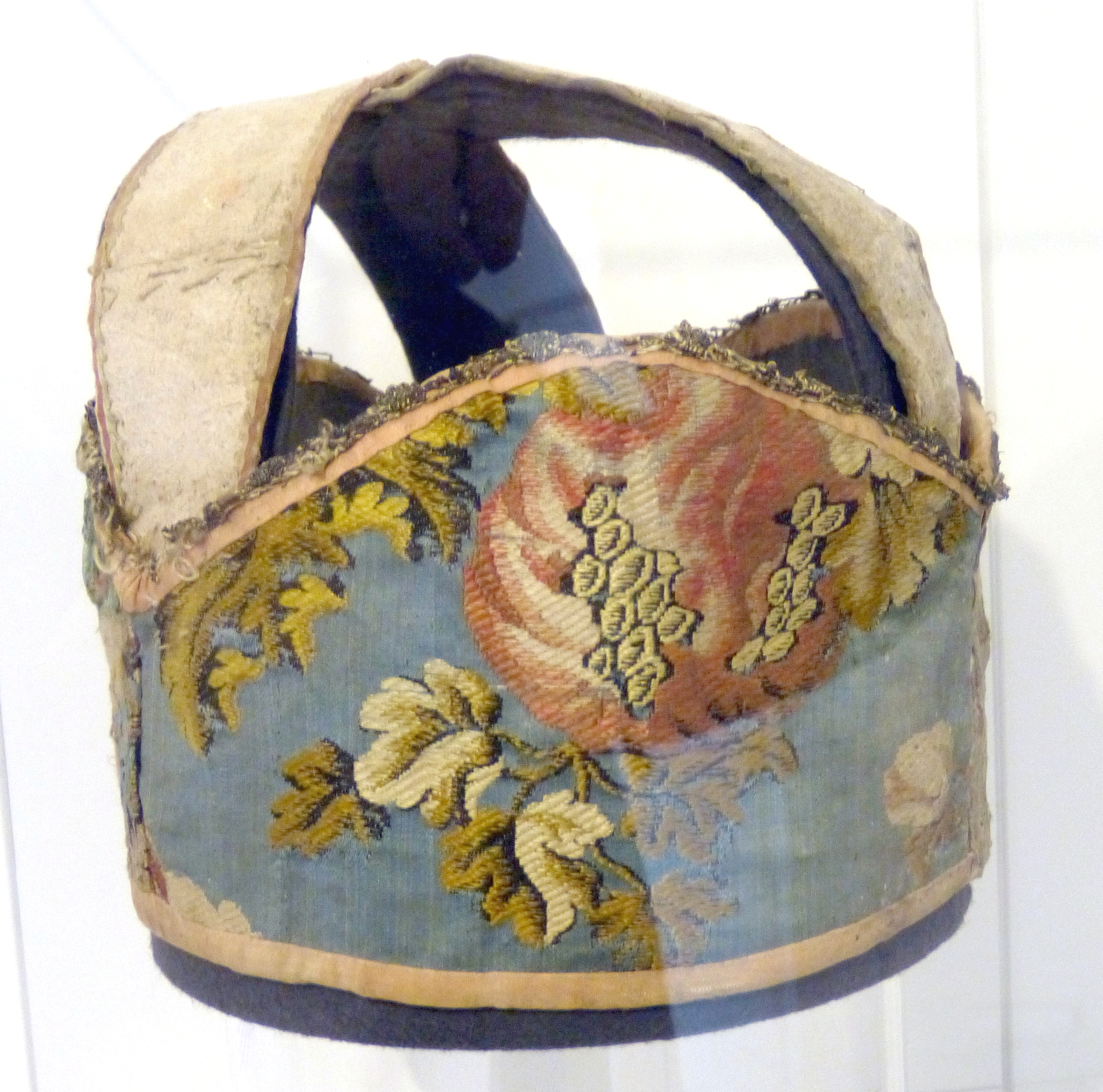 Fürth ( Middle Franconia ). Jewish Museum of Franconia: Textile torah crown ( 19th century ) from a poor Jewish community in Altenschönbach.